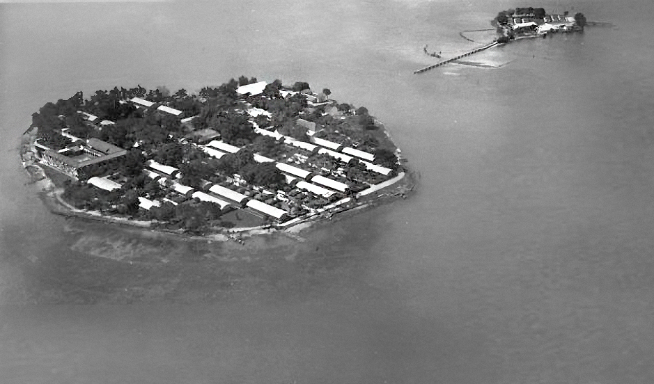 The quarantine islands of Onrust and Kuyper, near Batavia